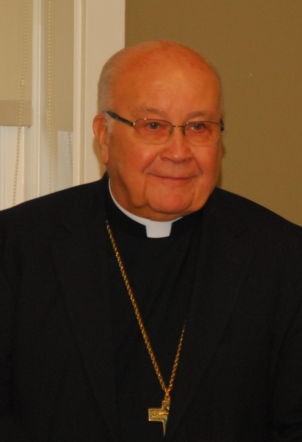 Roman Catholic Bishop Paul Gregory Bootkoski in New Brunwsick, New Jersey